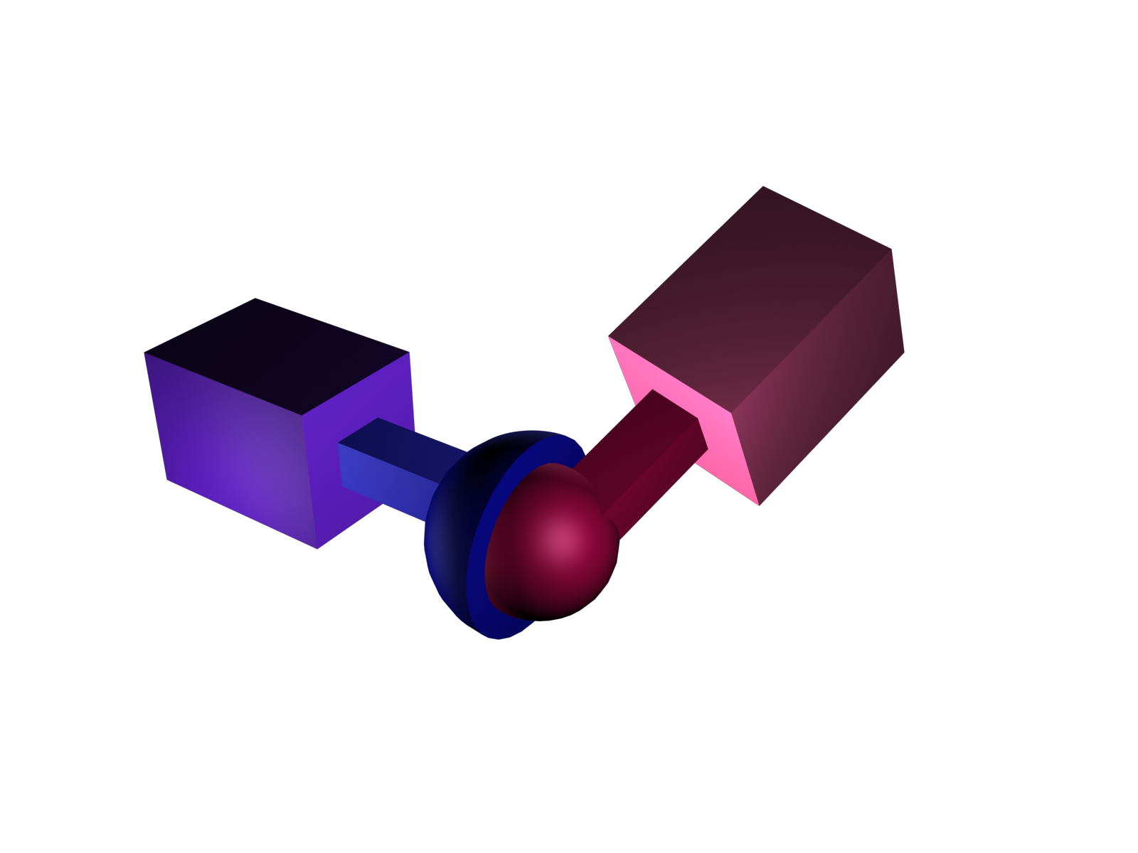 Ball-socket joint is a joint and constraint among two physical bodies. Ball-socket joint is one of three basic physical joints. Feature of the given connection consists that it limits moving of bodies mutually among themselves, and also limits, how bodies are turned relatively each other (but along all three axis).